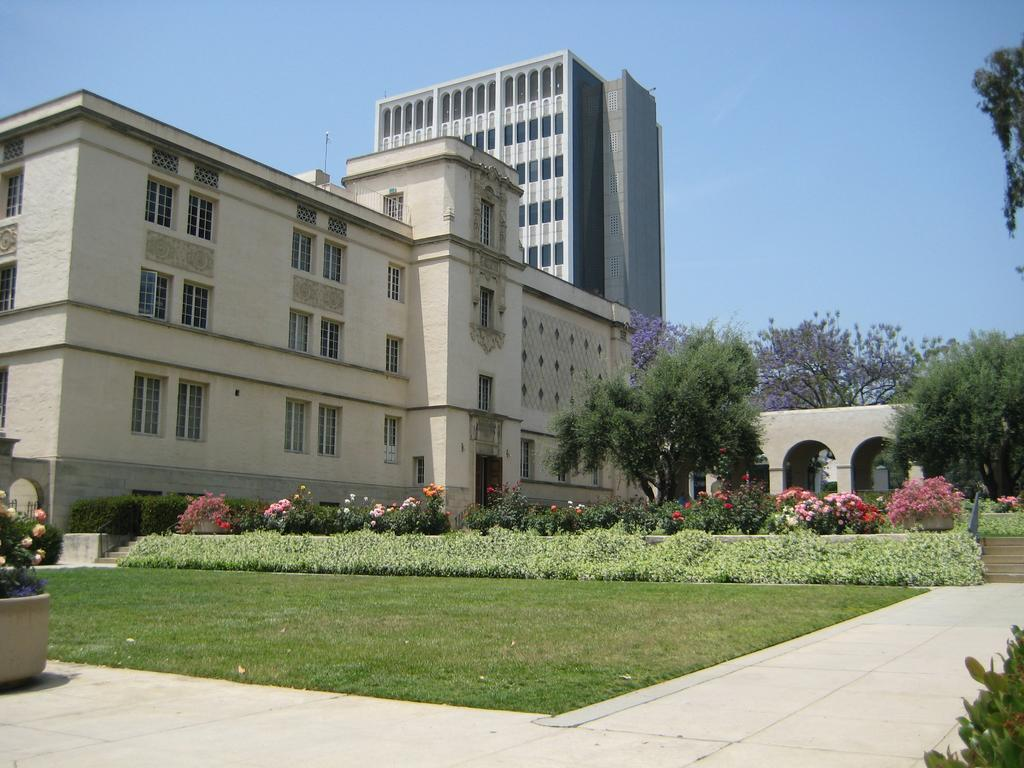 Caltech from California Boulevard. The foreground building is Bridge Laboratory, a physics building. The only tall building on the campus is Millikan Library, in the background.